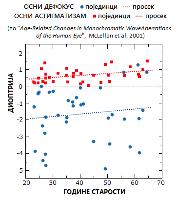 ОСНИ ДЕФОКУС И АСТИГМАТИЗАМ